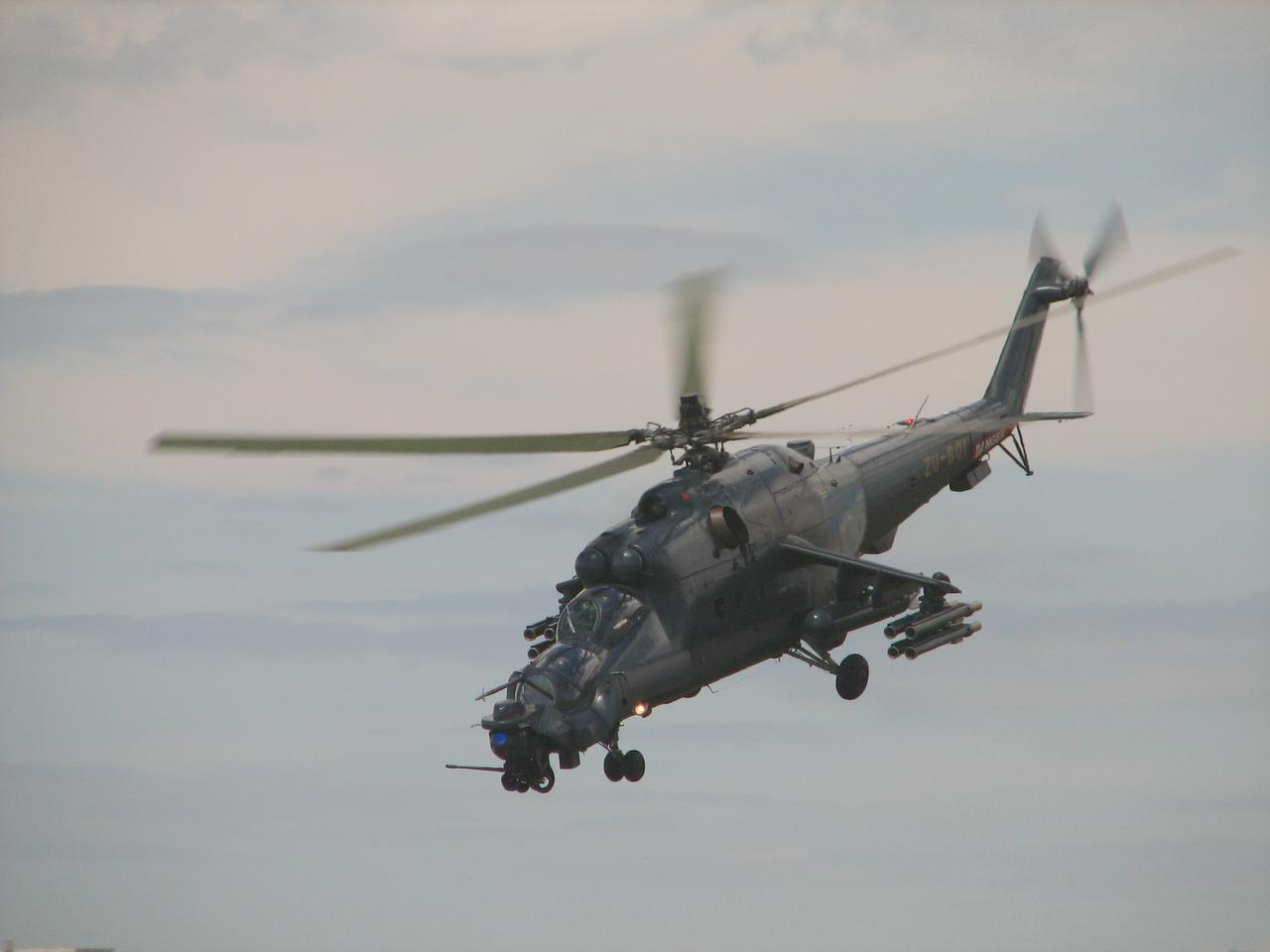 Mi-24 Super Agile Hind, a modernized Hind by the South African firm ATE.